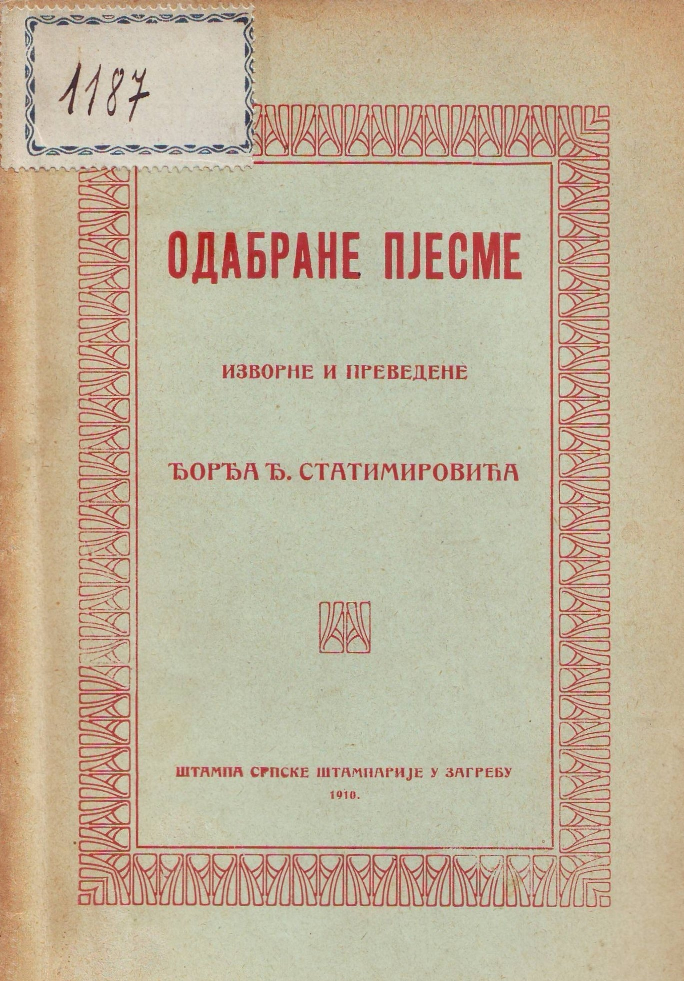 Cover of Odabrane pjesme izvorne i prevedene (1910) by Đorđe Đ. Stratimirović. Srpski (latinica): Naslovna strana Odabranih pjesama izvornih i prevedenih (1910) Đorđa Đ. Stratimirovića.